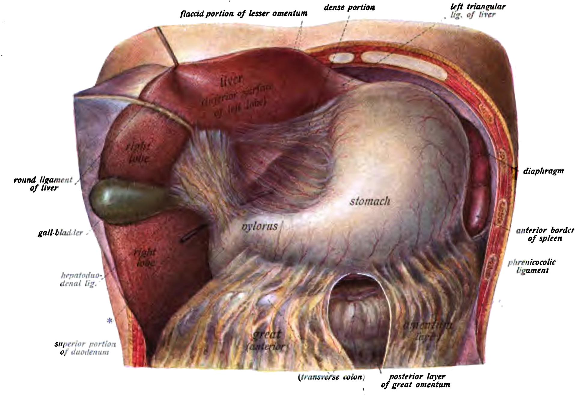 An anatomical illustration from the 1906 edition of Sobotta's Atlas and Text-book of Human Anatomy with English Terminology